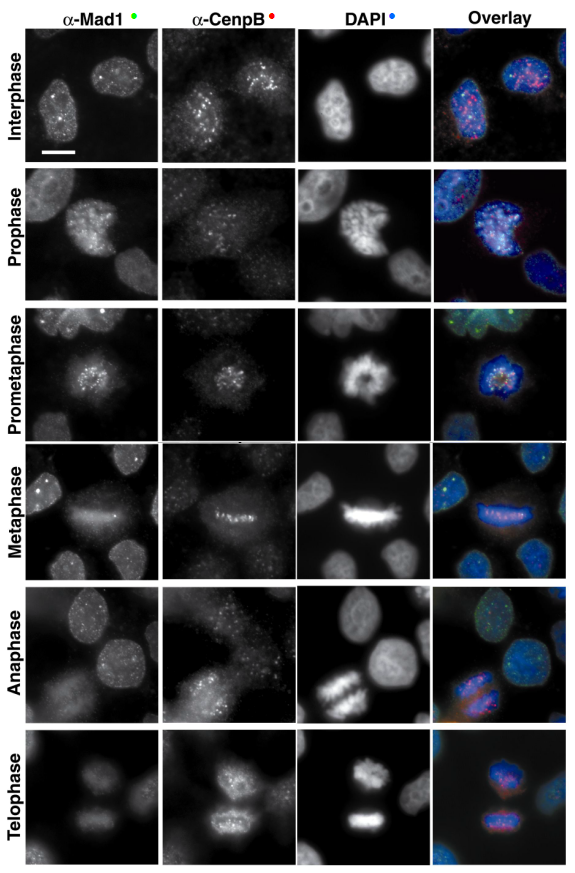 Fluorescence microscopy pictures, showing the localization of endogenous human Mad1 (one of the components of the mitotic checkpoint, in green) through the different stages along mitosis. Cenp-B (in red) is a marker for the centromere, and DAPI (in blue) stains the DNA.